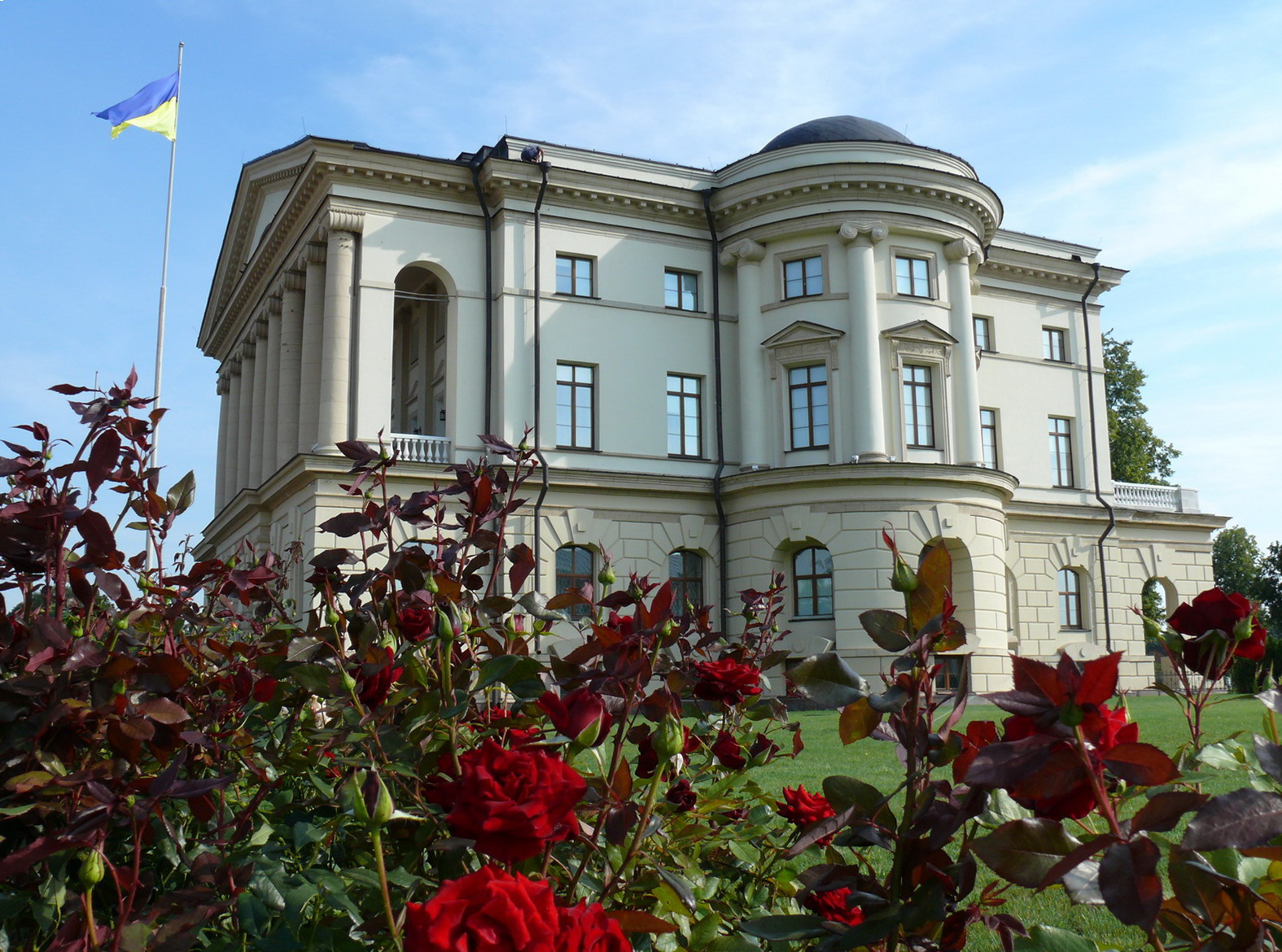 Palace of Rozumovskiy